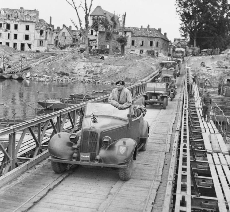 Field Marshal Montgomery stands up in his Humber staff car as he crosses the River Seine at Vernon, 1 September 1944. Field Marshal Montgomery stands up in his Humber staff car as he crosses the River Seine at Vernon, 1 September 1944.